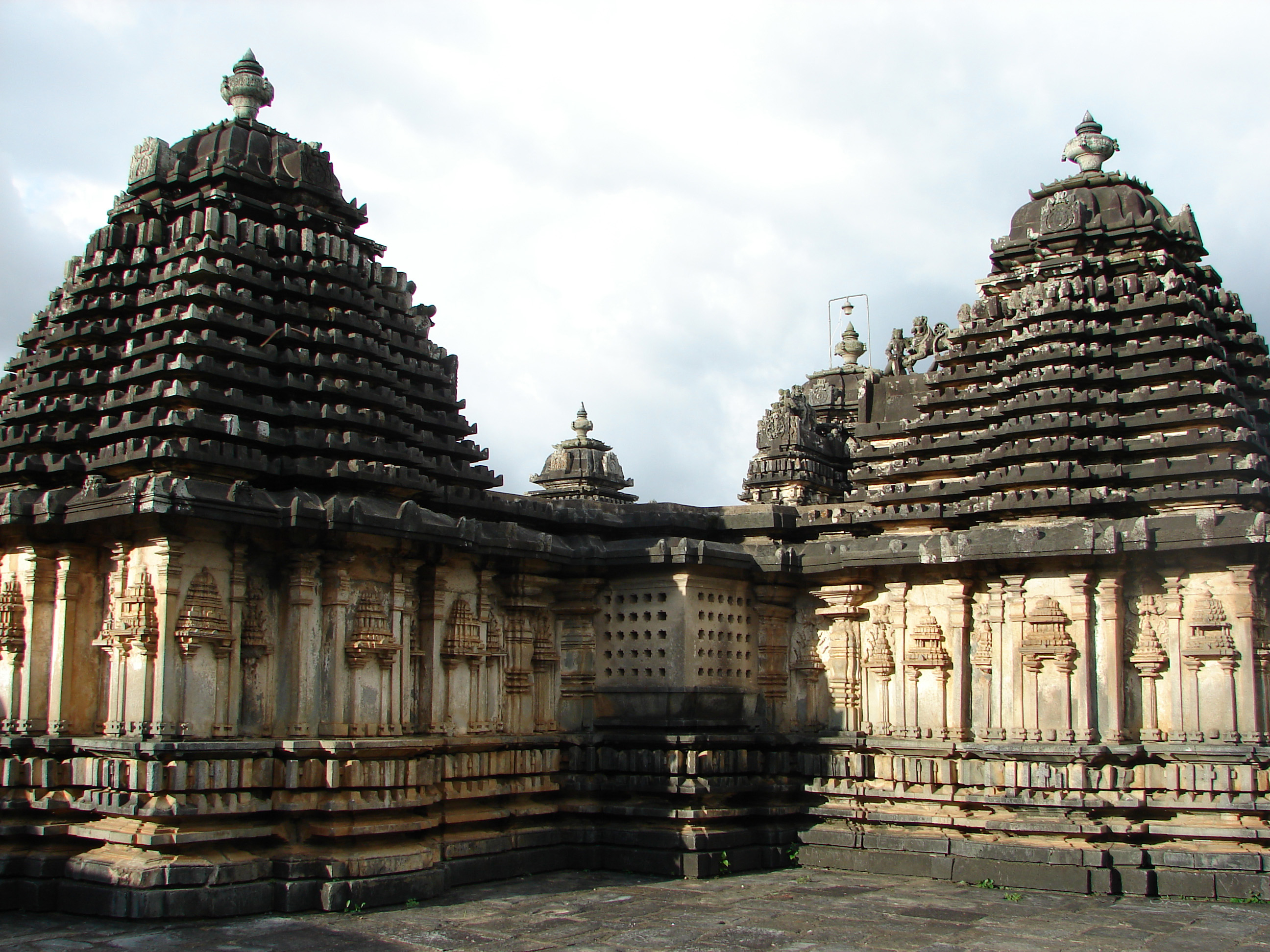 Photographed by Dineshkannambadi at Lakshmi Devi temple at Doddagaddavalli, Hassan district, Karnataka state, India in June, 2006 retouched by SagredoDiscussione? 02:39, 2 December 2007 (UTC) Original Image:Doddagaddavalli Lakshmidevi temple1.JPG